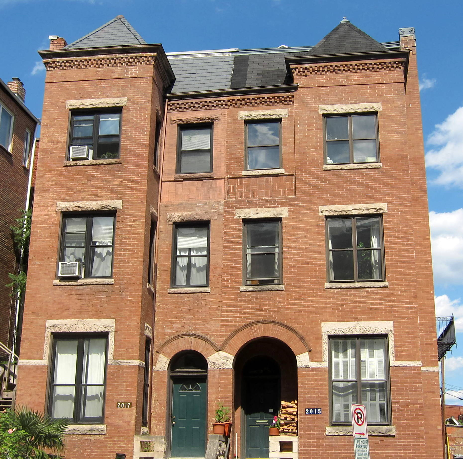 Row houses located at 2015–2017 19th Street, N.W., in the Adams Morgan neighborhood of Washington, D.C. Built in 1898 to the designs of architect Henry Simpson, the Queen Anne-style homes are designated as contributing properties to the Washington Height Historic District, listed on the National Register of Historic Places in 2006. Former occupants of 2015 19th Street (right) include author and diplomat Samuel Greene Wheeler Benjamin. Former occupants of 2017 19th Street include U.S. Representative Don C. Edwards, Secretary of the Swiss Legation Dr. Charles Bruggmann, Judge Robert Hardison, and Major John T. French.